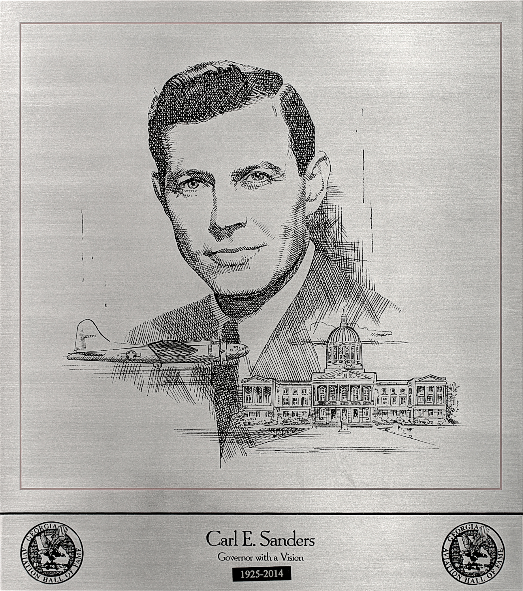 Carl E. Sanders (1925 - 2014)